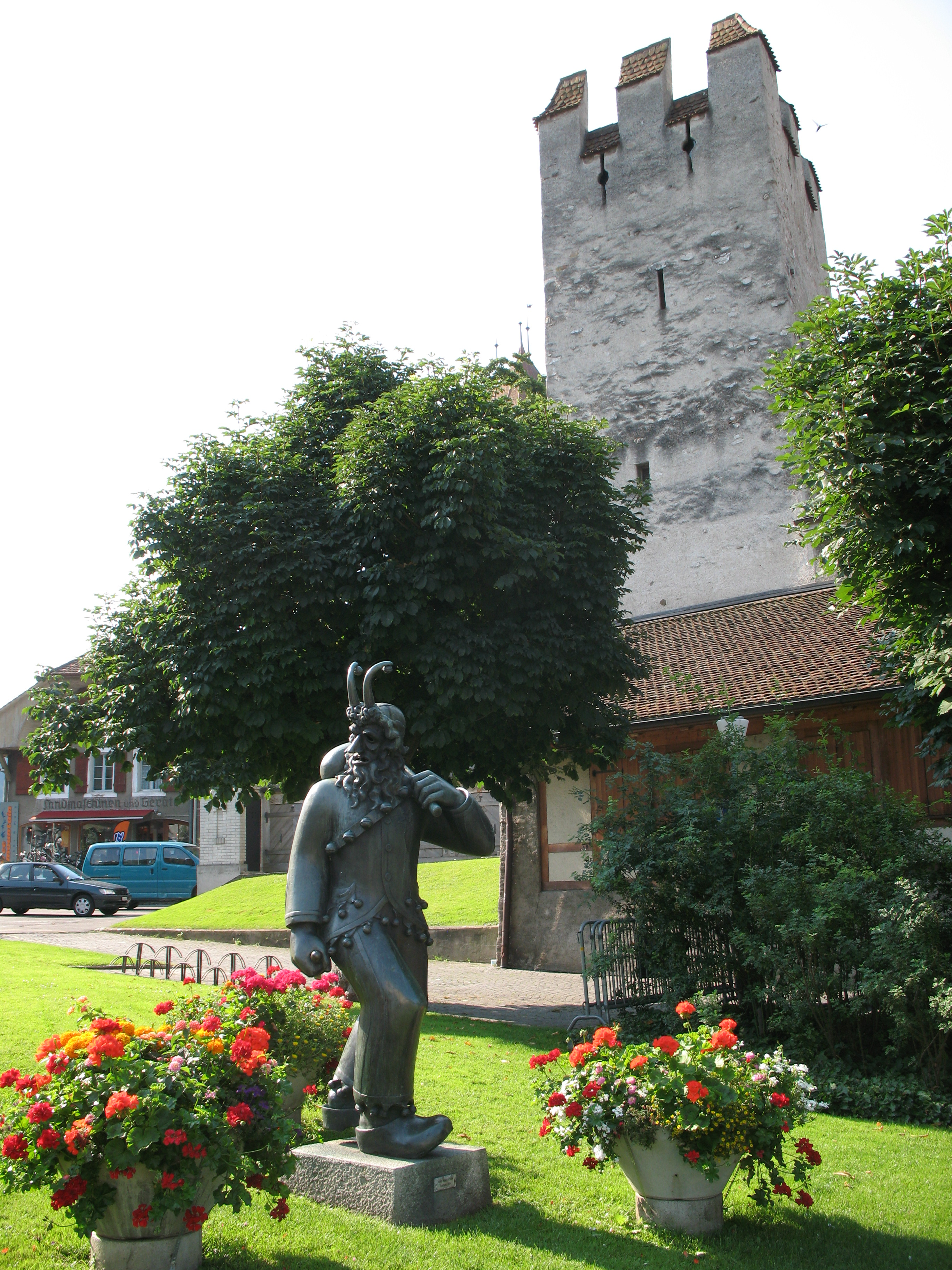 Fulehung and Chutzi Tower, Thun, Switzerland